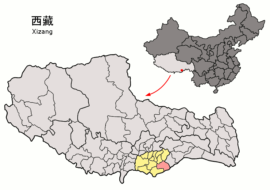 Location of Lhünzê County (pink) and Shannan Prefecture (yellow) within Tibet (Xizang) autonomous region of China